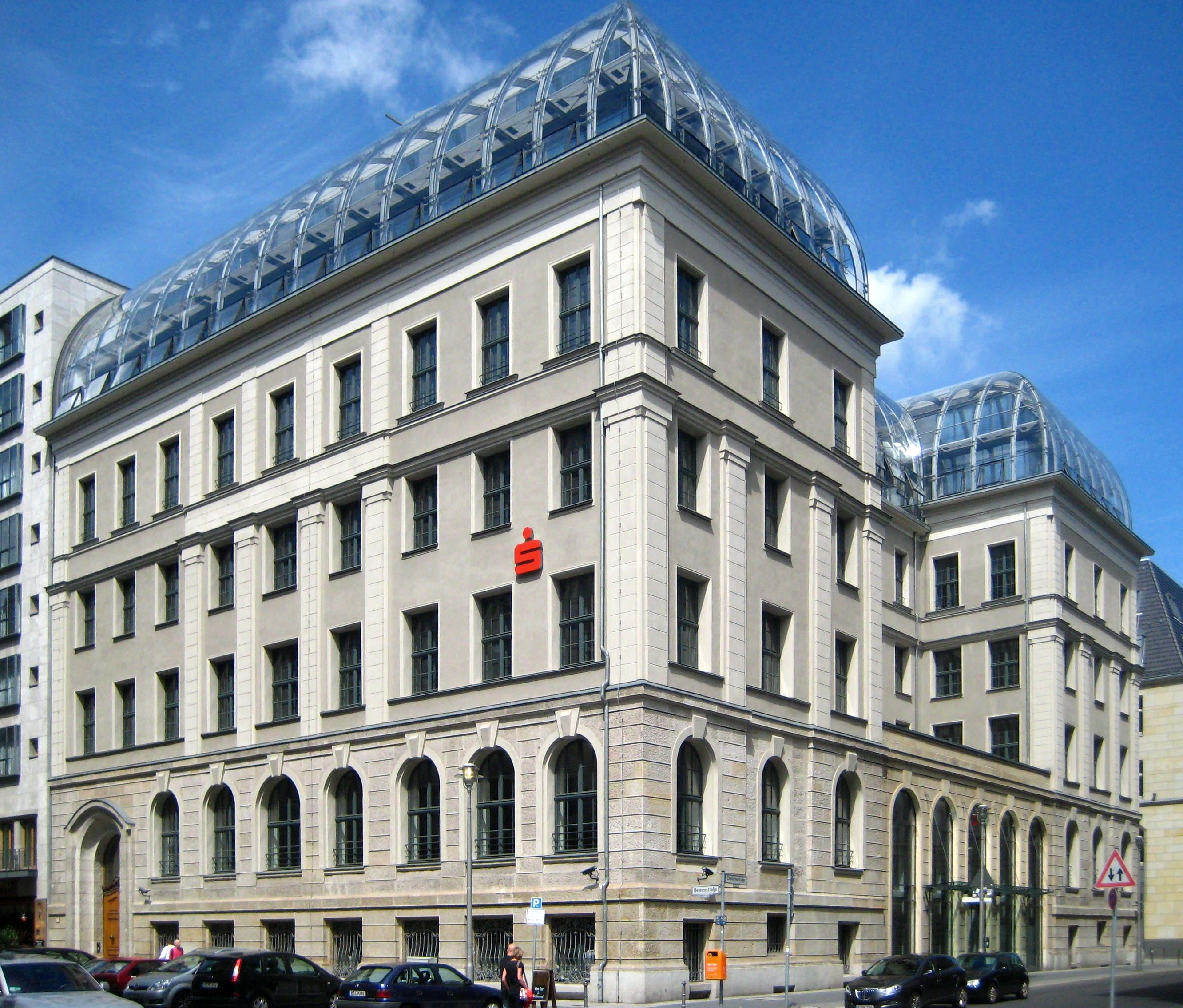 Former building of Berliner Bank at Behrenstraße No. 46, corner of Charlottenstraße (on the right) in Berlin-Mitte, built 1900 to 1901 by the architect Wilhelm Martens. The building was taken over by Commerz- and Privatbank in 1905; a story and a mansard hip roof were added around 1920. The building was damaged in WWII and the facade was reconstructed afterwards without the original Neo-Baroque ornaments. Preserved elements include the skylighted single-story banking hall on Charlottenstraße, flanked by two office wings. The building is now main seat of Deutscher Sparkassen- und Giroverband. It has been designated as a historic landmark.